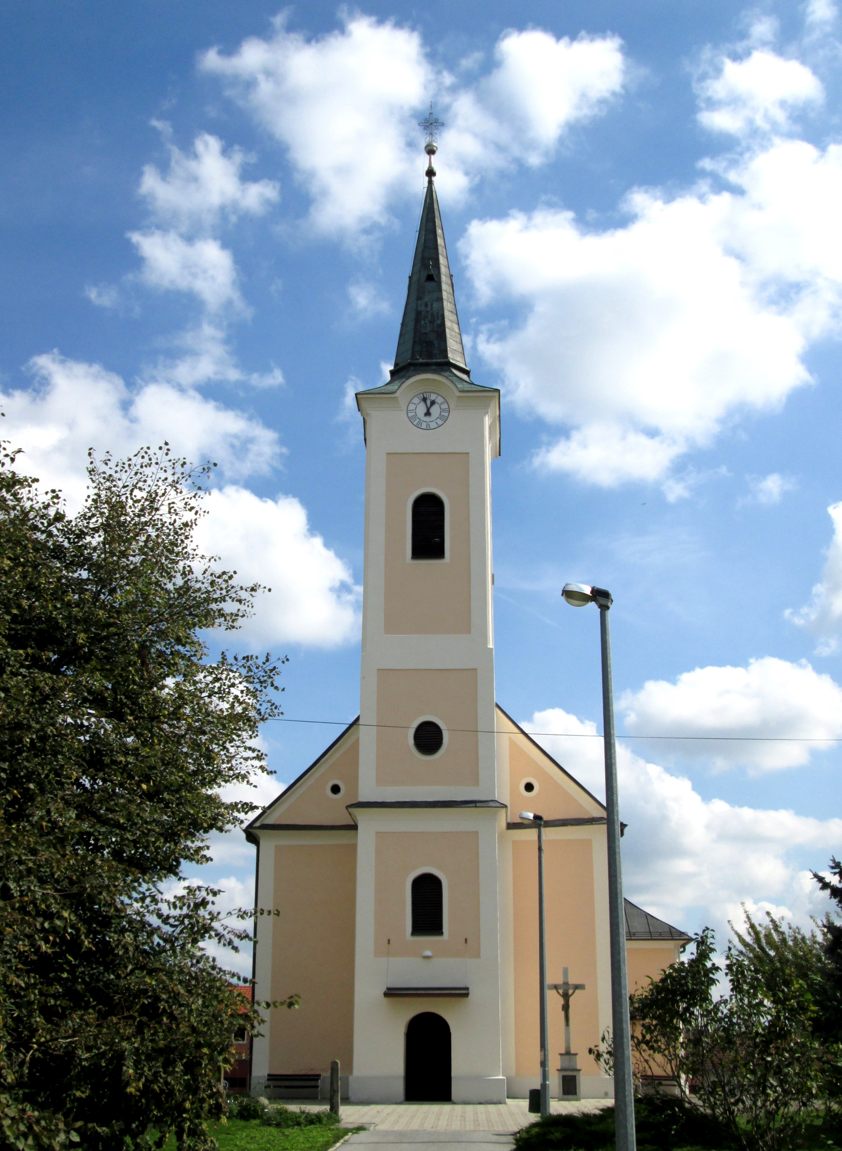 Catholic Church of Holy Trinity in village of Rovisce in Croatia